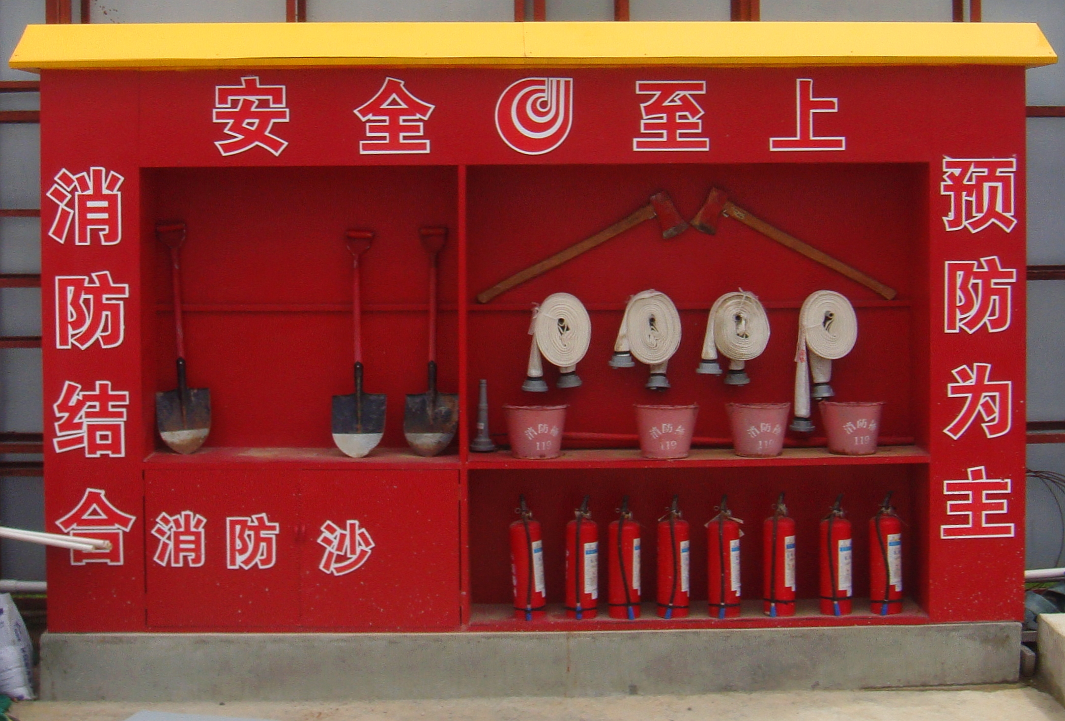 Fire equipment at Haikou Tower construction site, Haikou, Hainan, China